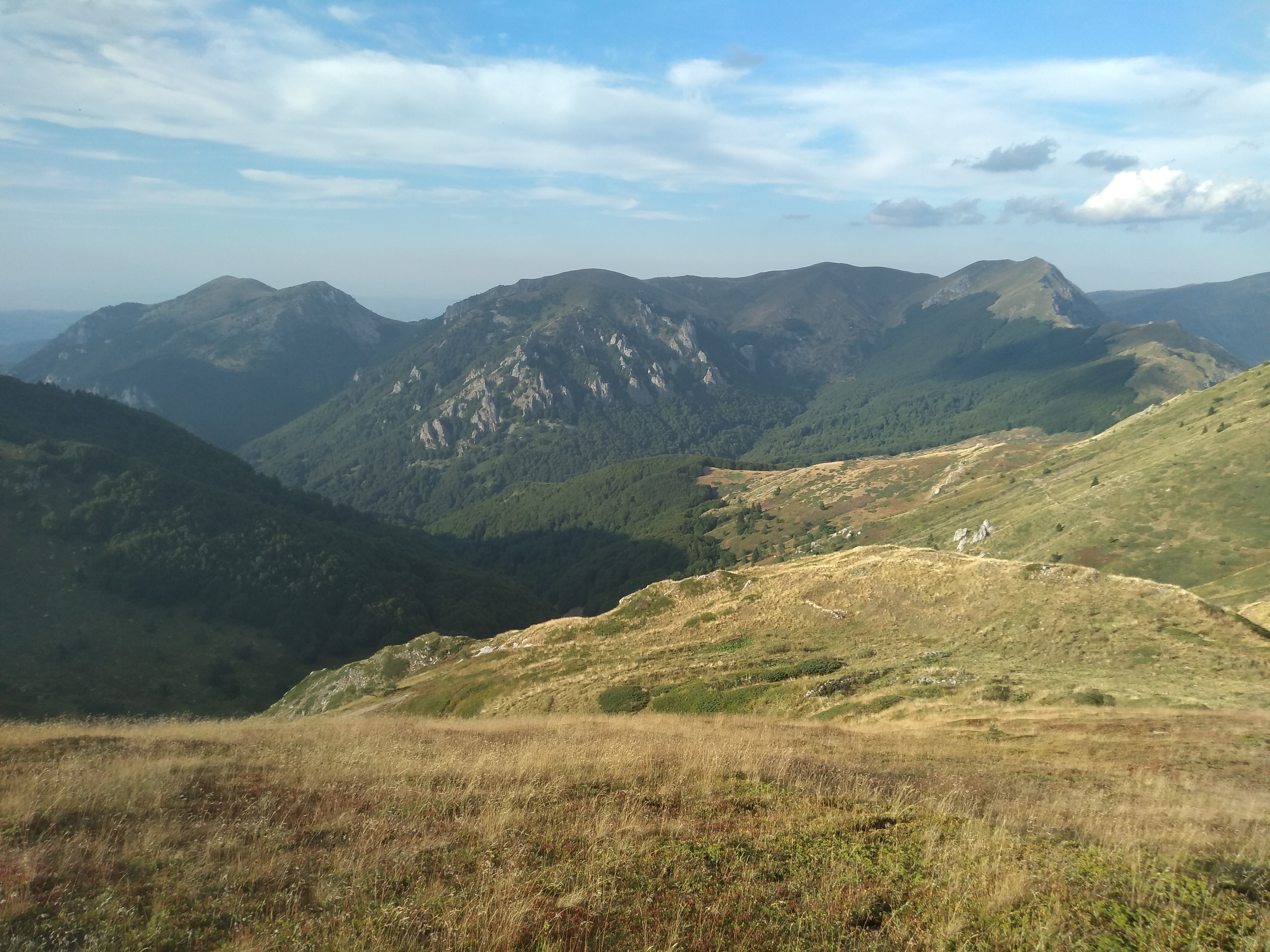 Kožuf mountain, Macedonia